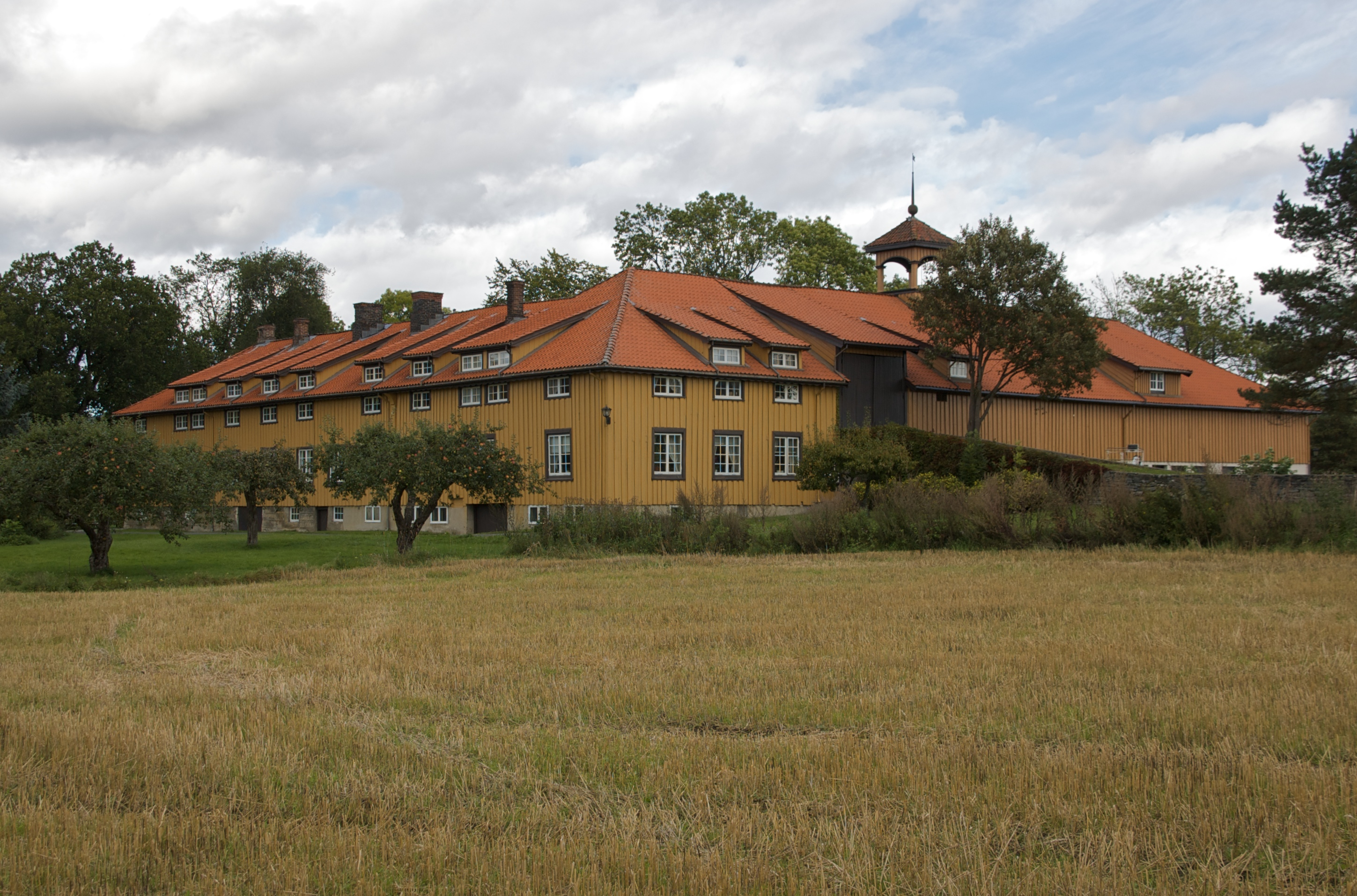 Frogner hovedgård in Skien, Norway